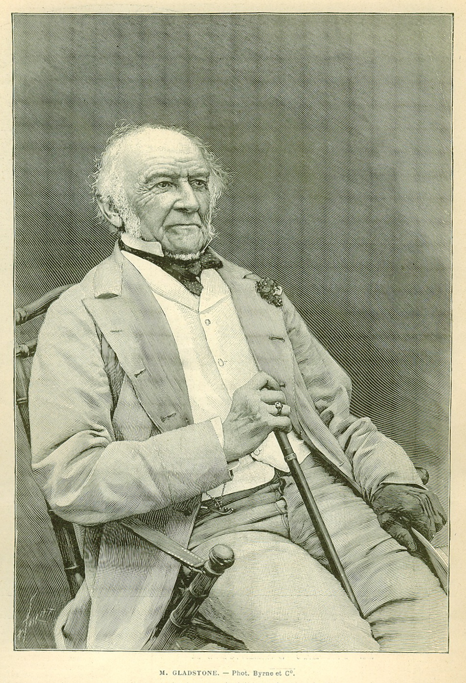 William Ewart GLADSTONE, former british Prime Minister, a few days before his death, 1898